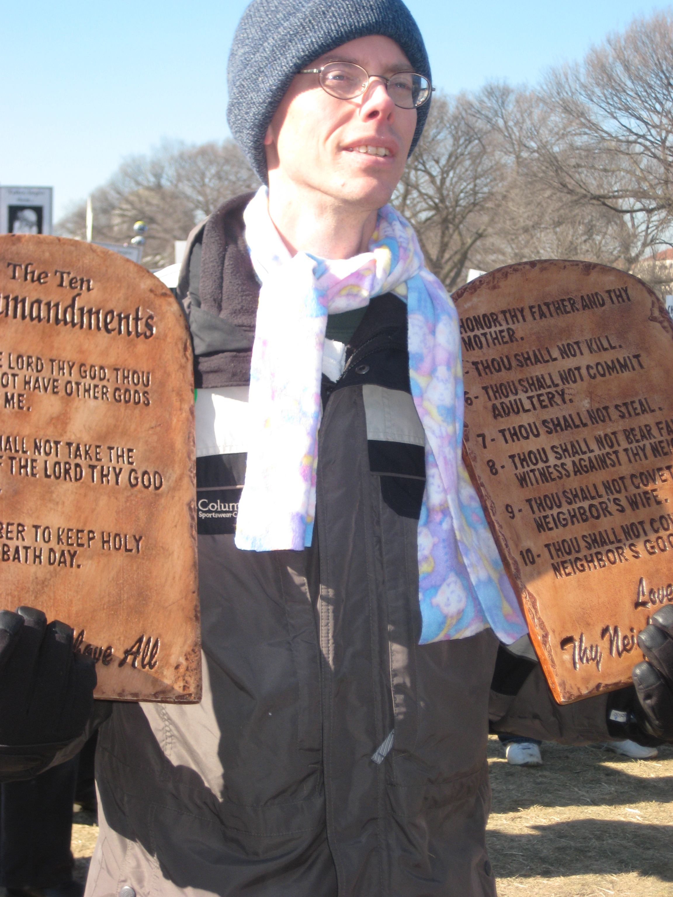 Protester at the 2009 March For Life in Washington displaying the Ten Commandments. January 2009 photo by John Stephen Dwyer